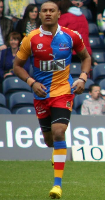 Kevin Penny Quins